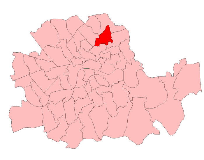 A map of Hackney Central constituency within the London County Council area, as it existed from 1918 to 1949.